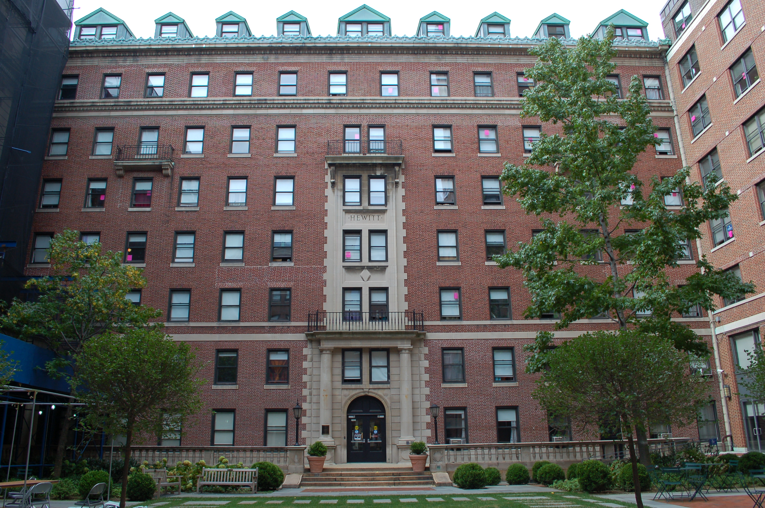 Hewitt Hall, on the Morningside Heights campus of Barnard College, is a dormitory built in 1924-25 and designed by McKim, Mead & White.